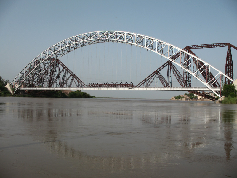 Ayub bridge and Lansdowne bridge linking Sukkur and Rohri in Pakistan